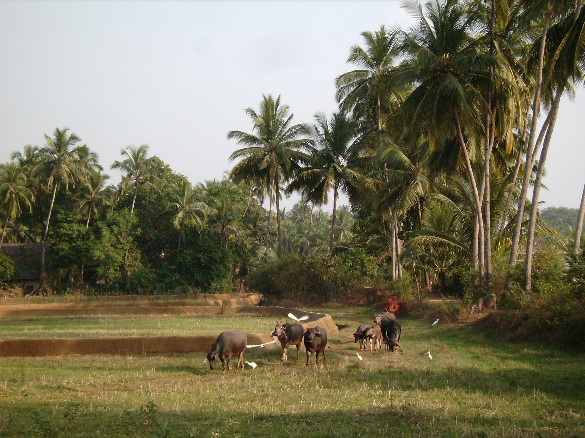 Cattle walks along a farming area in Morjim village, North Goa, India